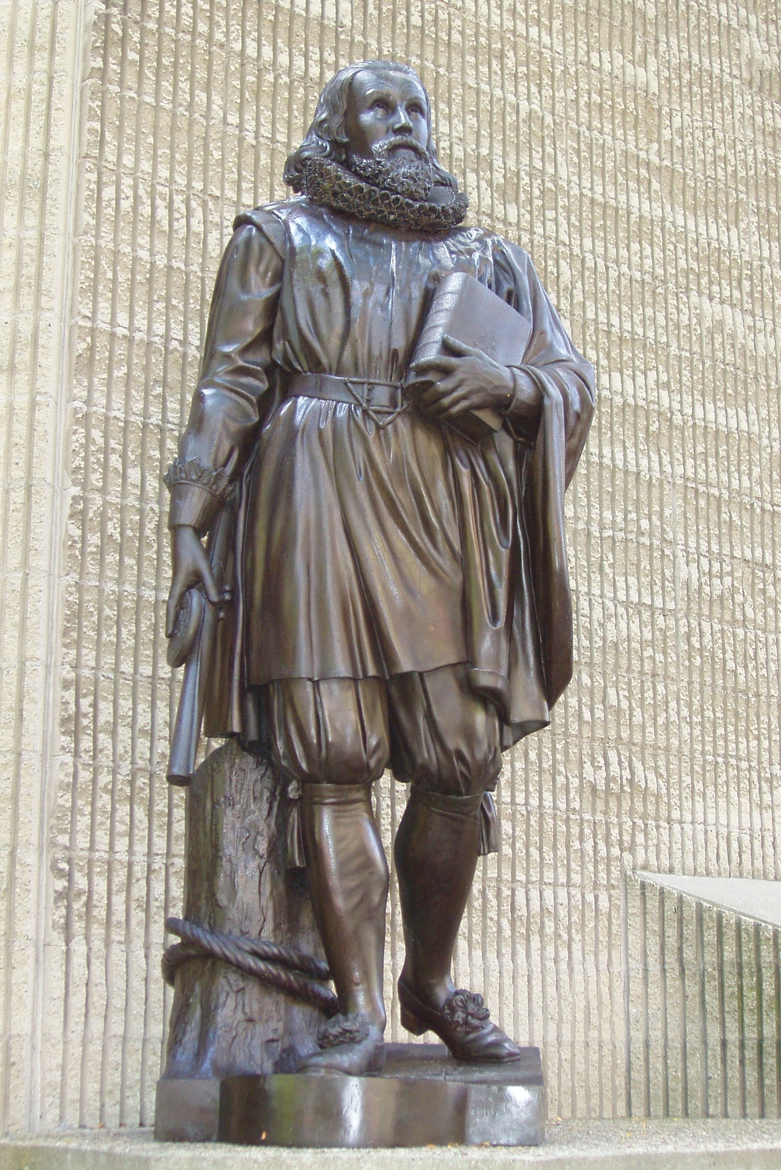 John Winthrop by Richard Saltonstall Greenough (1873), Boston, Massachusetts, USA. Copyright (if any) has expired on this work of art, as the author died more than 70 years ago.